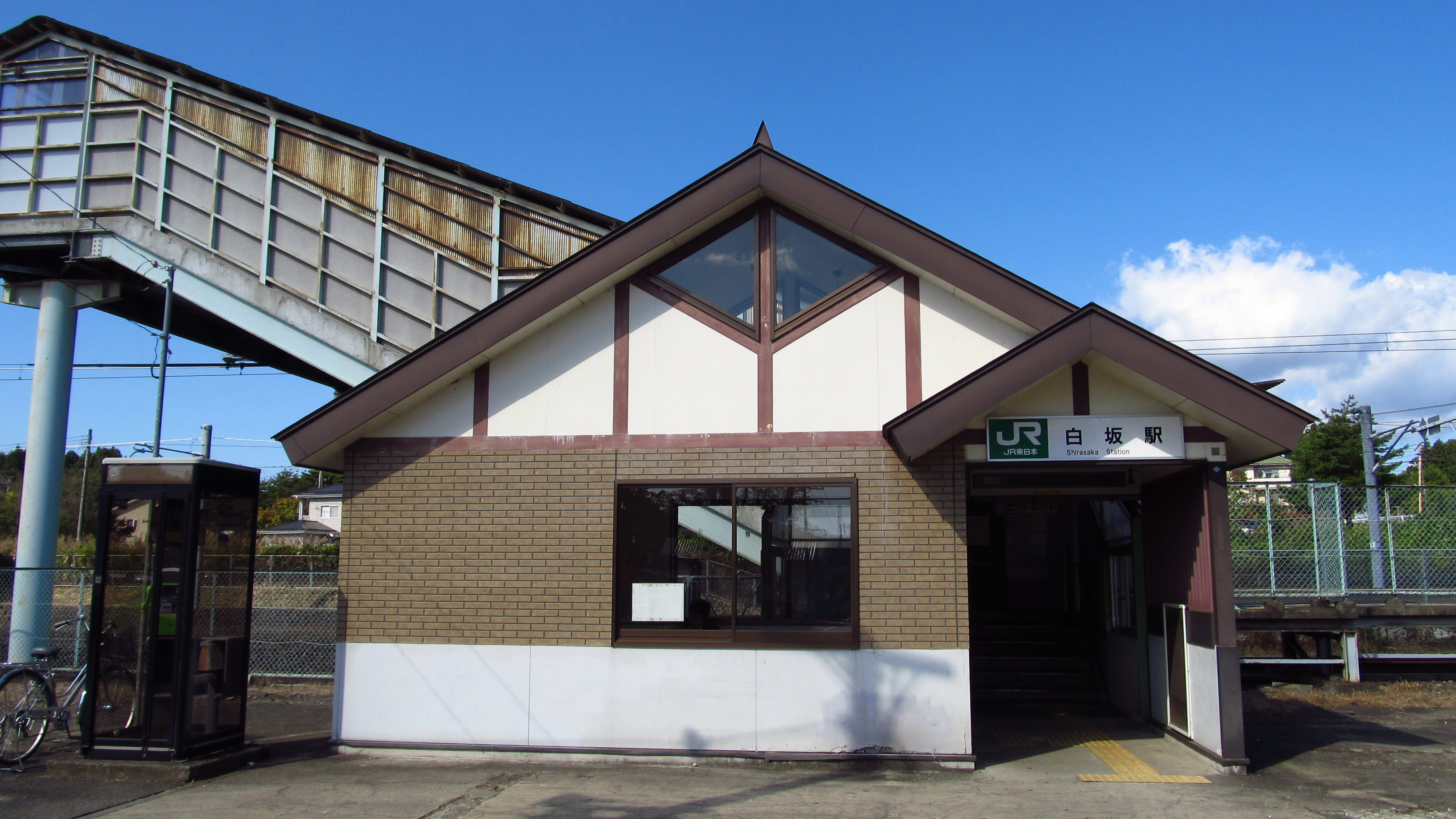 The entrance to Shirasaka Station on the Tōhoku Main Line in Shirakawa city, Fukushima prefecture, Japan